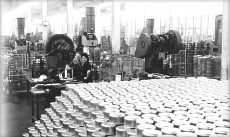 Lagostina pots and pans factory